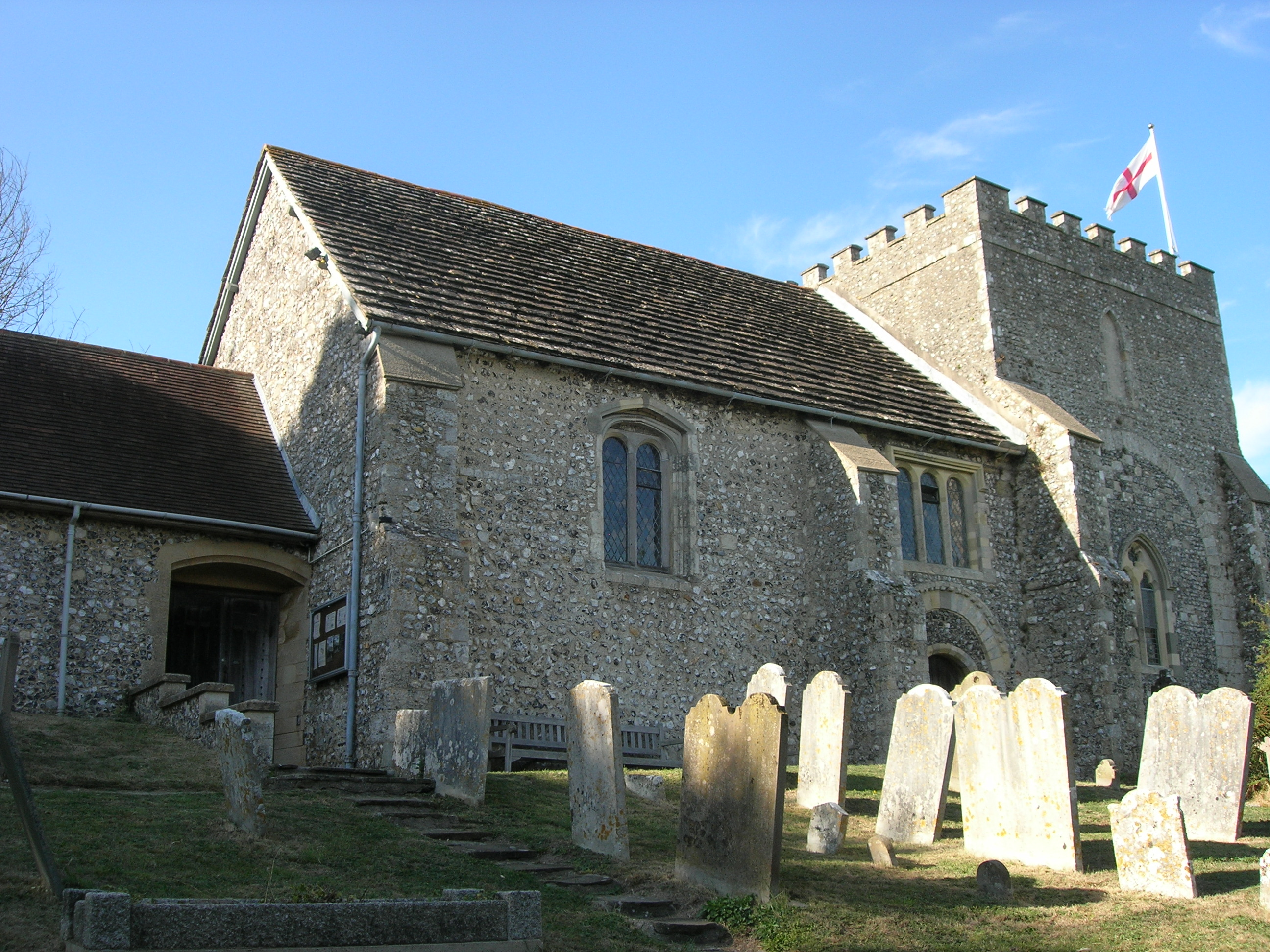 St Nicholas' Church at Bramber Castle, West Sussex, England. The photograph was taken in 2006 by Timothy L'Estrange.